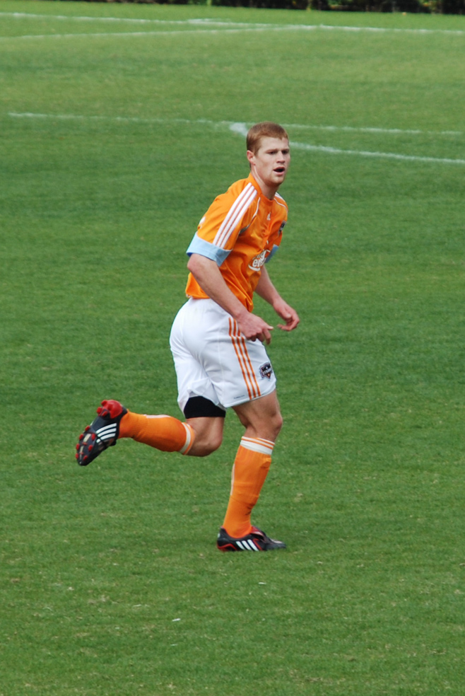 31 André Hainault - Practice